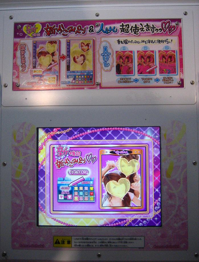 A pen-sensitive screen for decorating photos inside a purikura photo booth in Fukushima City, Japan. Picture was taken with a Canon Power Shot SD450 Digital Elph camera and modified using a Paint Shop program on a laptop computer.